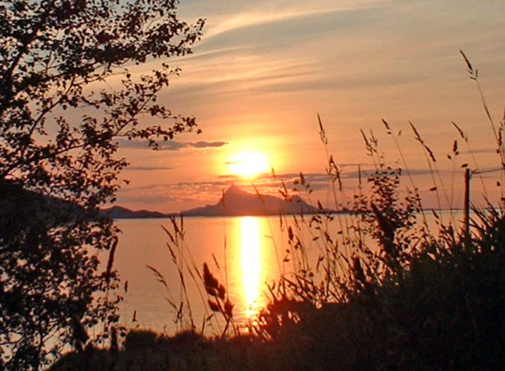 The island Hestmannen (or Hestmona/Hestmannøy) in Lurøy kommune in Nordland fylke (county) in Norway as seen from Aldersundet